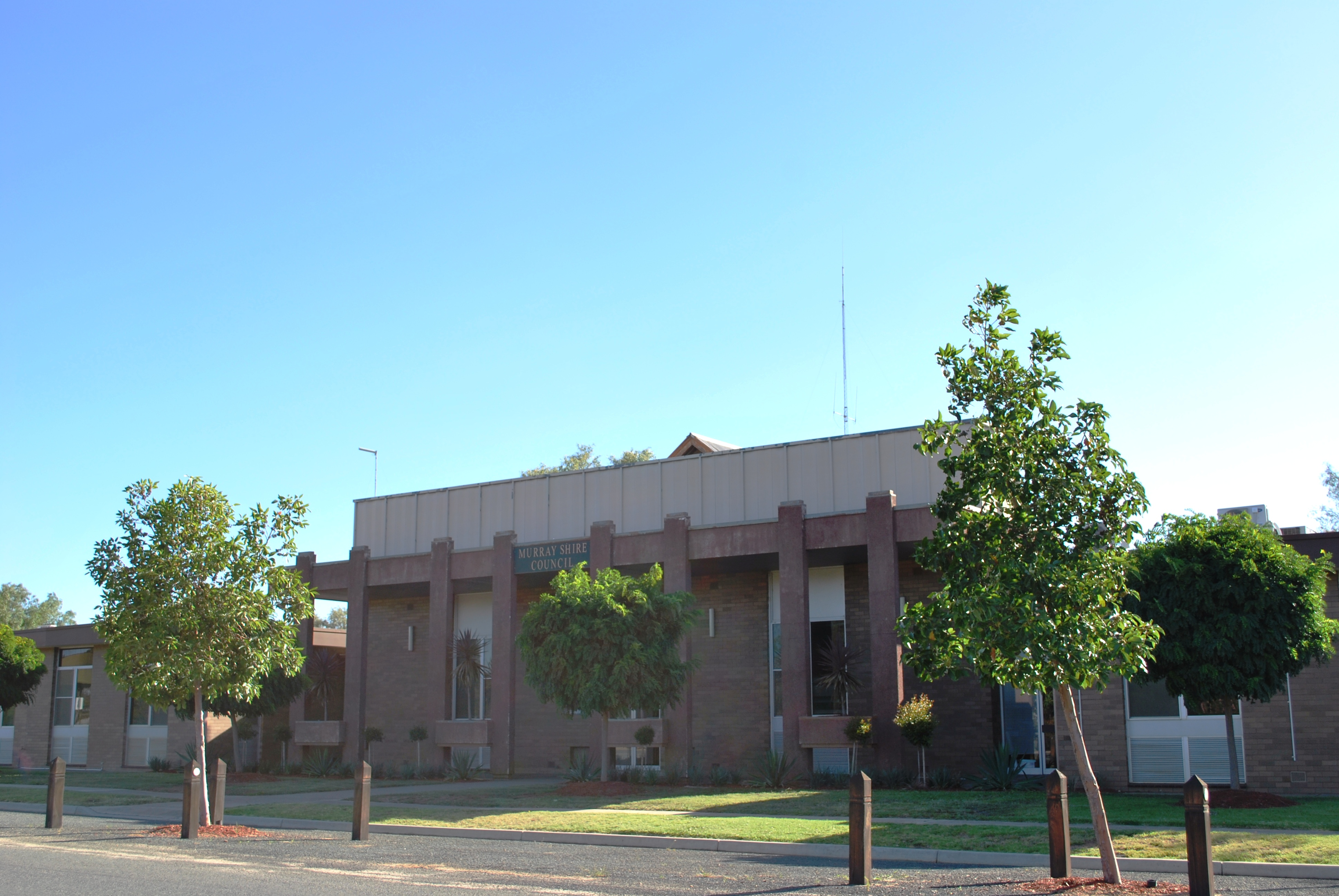 Murray Shire Council offices at Mathoura, New South Wales